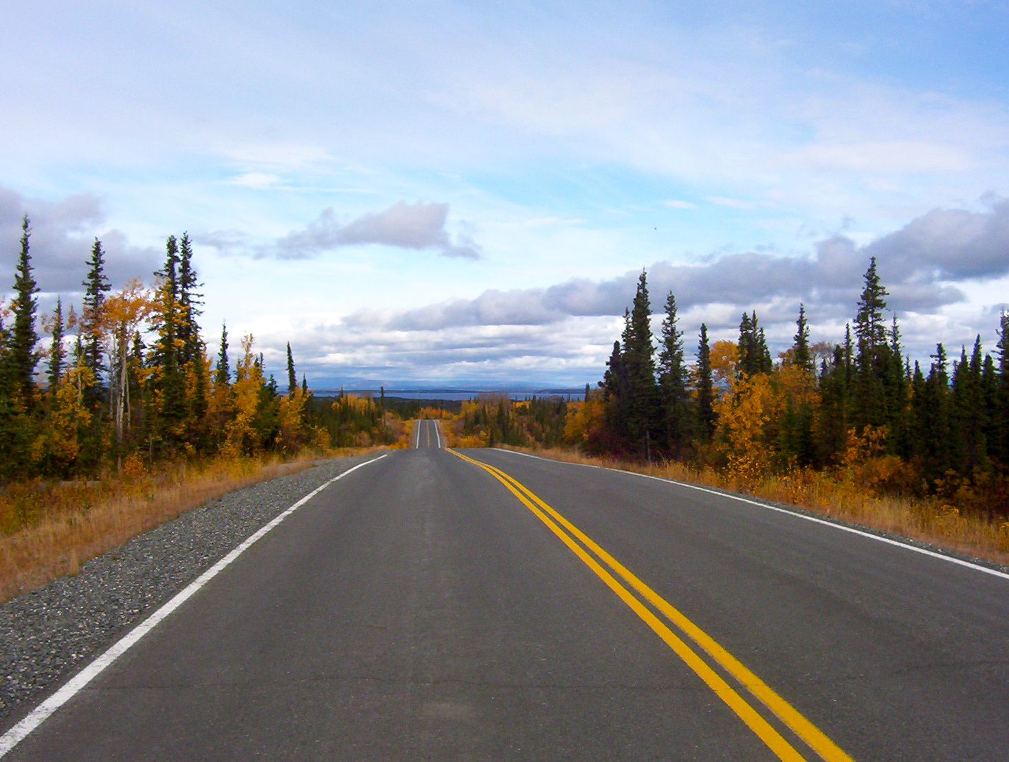 Lake Louise road, with the lake in the distance